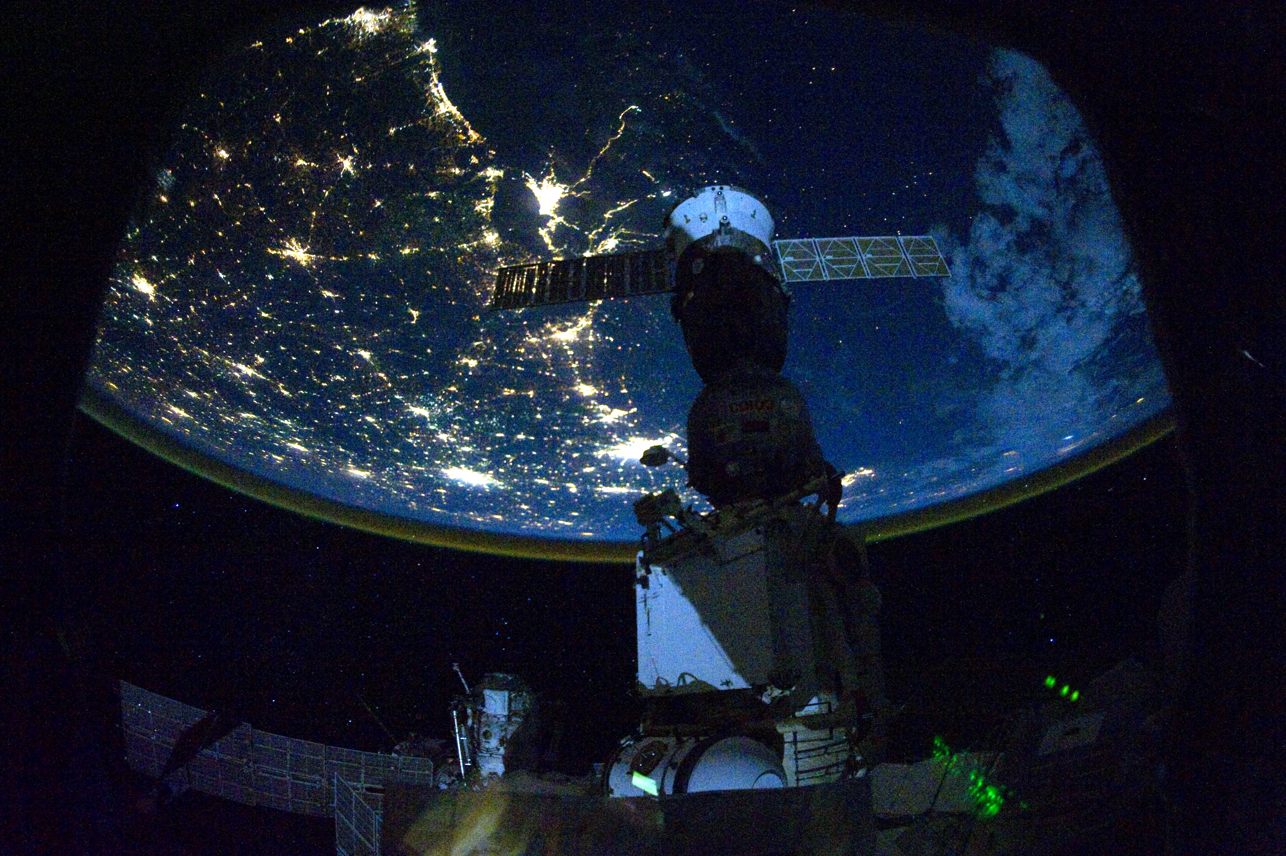 Night time astronaut image of the northern Gulf coast. Mobile Bay and the city of Mobile (top left, beneath one of the solar panels of a docked Russian Soyuz spacecraft), New Orleans and Houston are visible as the view moves south-eastward. The Interstate Highway 20 cities of Jackson, Shreveport, Dallas and Fort Worth are also visible further inland. The view extends northward (left) to Little Rock and Oklahoma City.